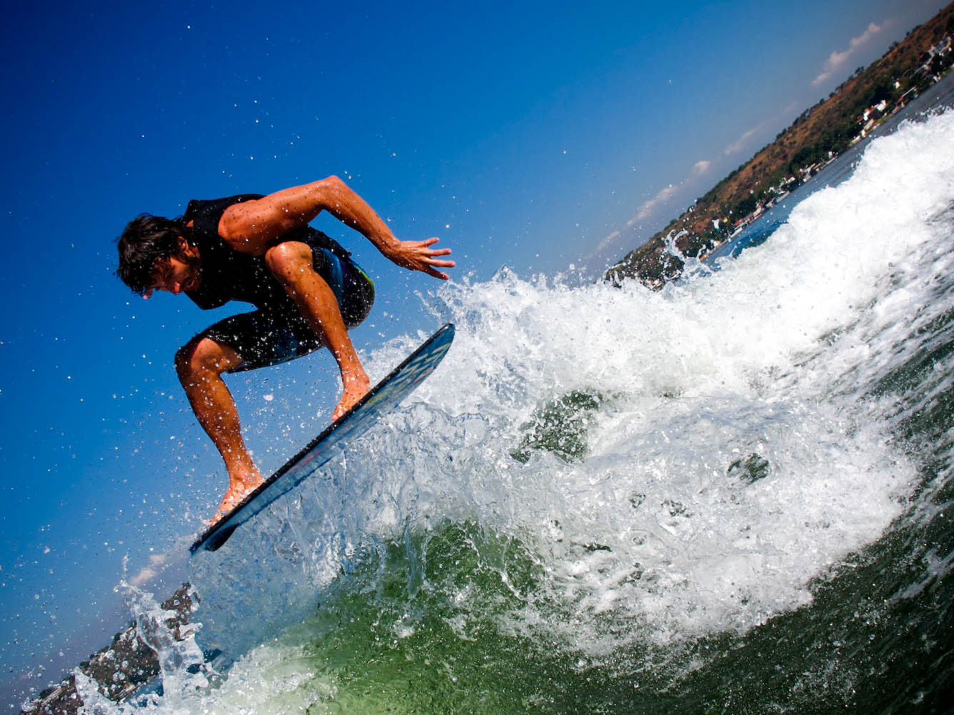 Wakesurf at Tequesquitengo Lake Mexico